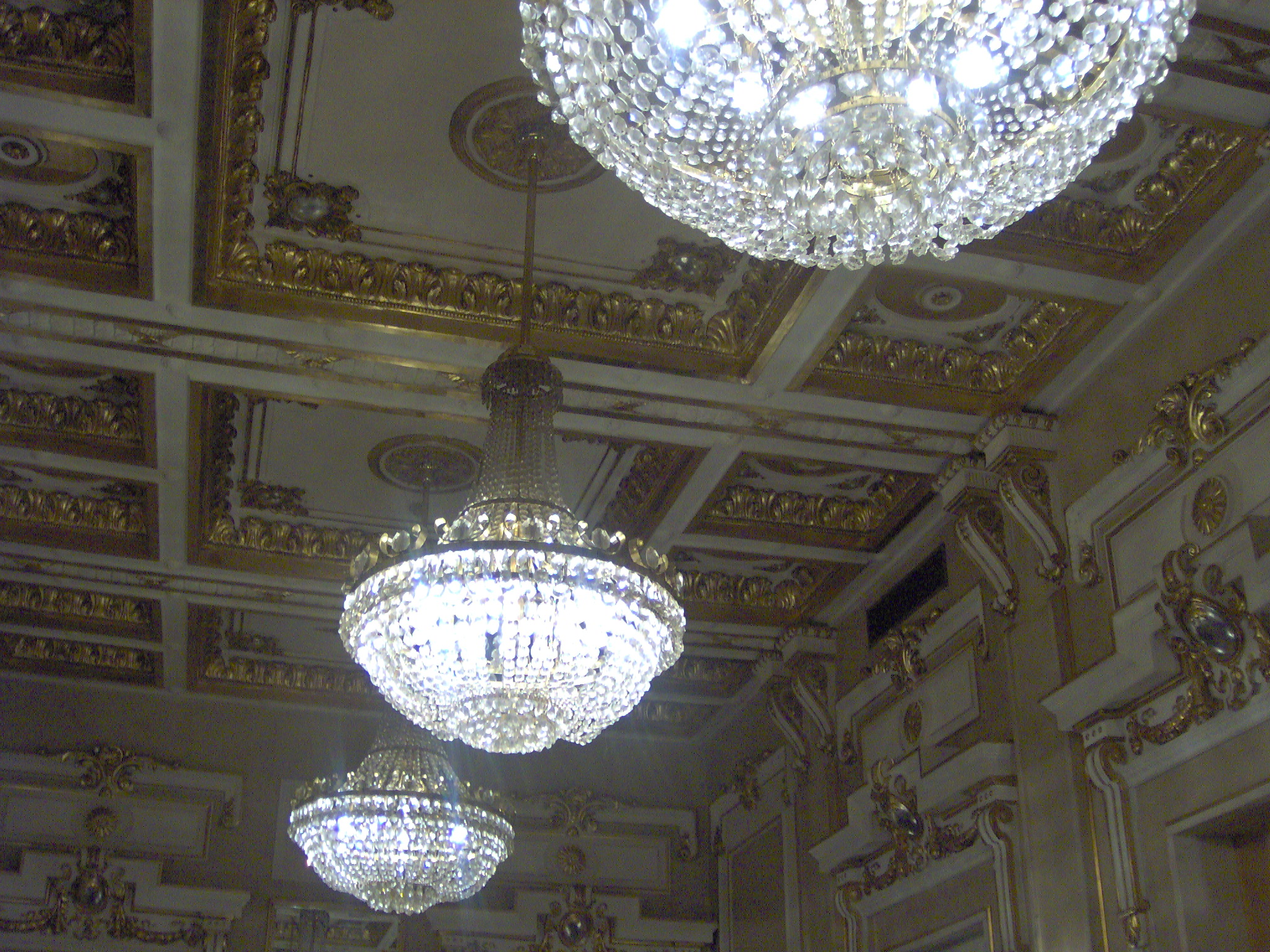 Lobby at the National Theatre in Belgrade, Serbia/Plafond du Théâtre national de Belgrade (salle principale), Serbie